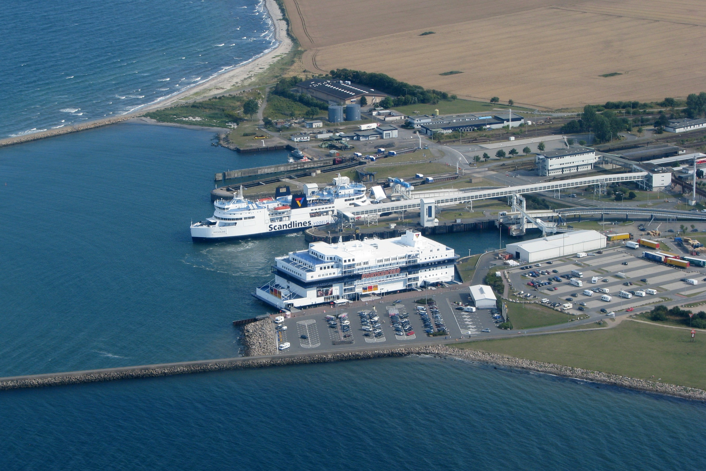 Puttgarden on Fehmarn, seen from a sightseeing-airplane